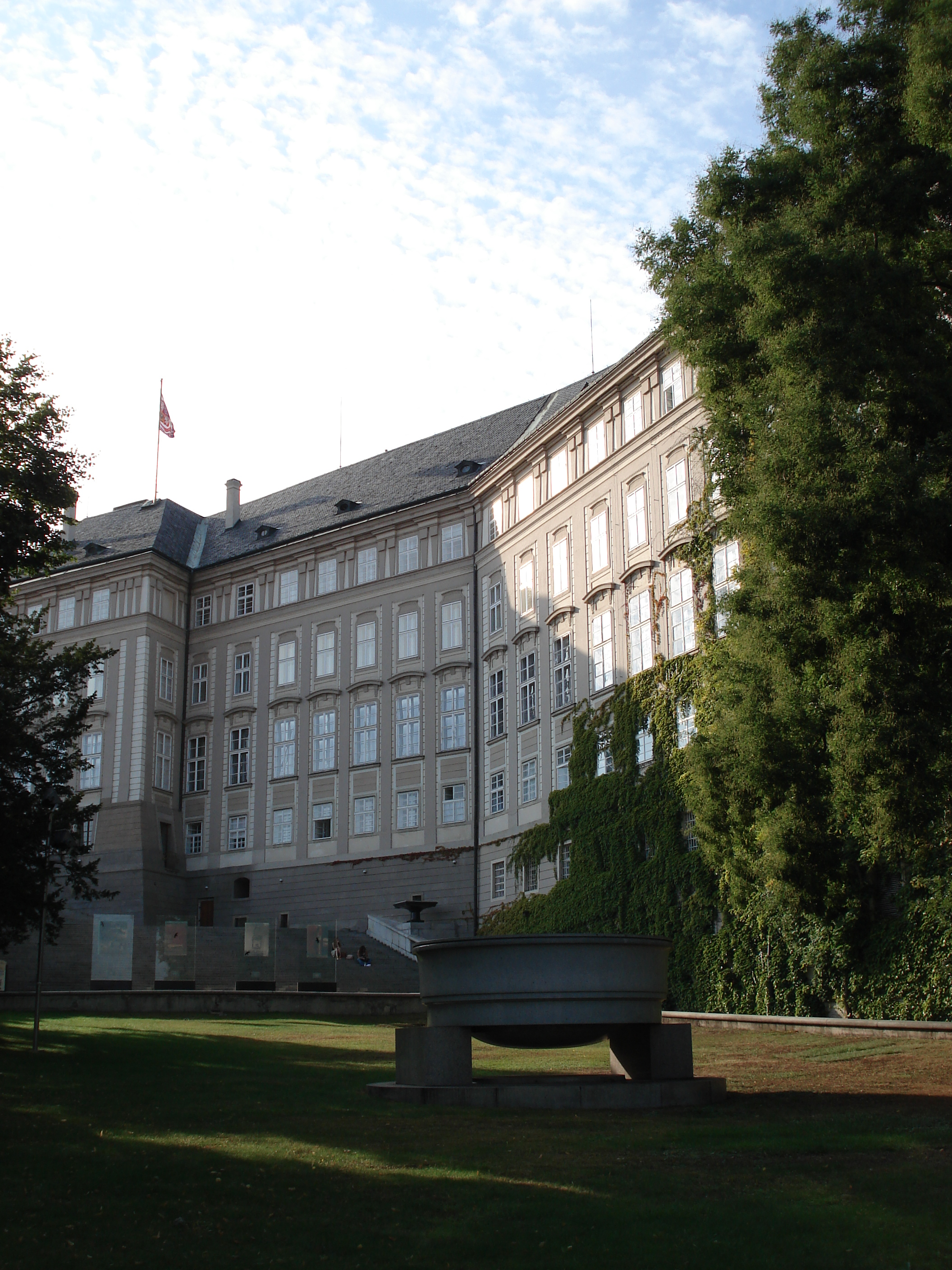 Prague Castle, South garden